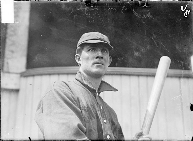 [Baseball player, Cy Seymour, Cincinnati Reds, holding baseball bat, standing at West Side Grounds]. Chicago Daily News, Inc., photographer. CREATED/PUBLISHED 1903. SUMMARY Half-length portrait of baseball player, Cy (James Bentley) Seymour, center fielder for the Cincinnati Reds, National League, holding a baseball bat, standing at West Side Grounds, which was located between West Polk Street, South Wolcott Avenue (formerly Lincoln Street), West Taylor Street, and South Wood Street, in the Near West Side community area of Chicago, Illinois. NOTES This photonegative taken by a Chicago Daily News photographer may have been published in the newspaper. Cite as: SDN-001726, Chicago Daily News negatives collection, Chicago History Museum. SUBJECTS Seymour, James Bentley. Cincinnati Reds (Baseball team) West Side Grounds (Chicago, Ill.) National League of Professional Baseball Clubs Baseball players--Illinois--Chicago--1900-1909. Baseball bats Near West Side (Chicago, Ill.)--1900-1909. Chicago (Ill.)--1900-1909. Portraits. Dry plate negatives. Gelatin dry plate negatives. United States--Illinois--Cook County--Chicago. MEDIUM 1 negative : b&w, glass ; 5 x 7 in. REPRODUCTION NUMBER SDN-001726 REPOSITORY Chicago History Museum, 1601 North Clark Street, Chicago, IL 60614-6038. DIGITAL ID (original negative) ichicdn s001726